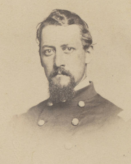 Leiutenant Colonel, William H. De Bevoise, 14th Regiment, N. Y. S. M.; enrolled April 18, 1861 age 35 years as Captain Company H., 14th Regiment, Major February 20, 1862., Lieutenant Colonel October 1, 1862, discharged for disability May, 1863, New York State Military Museum